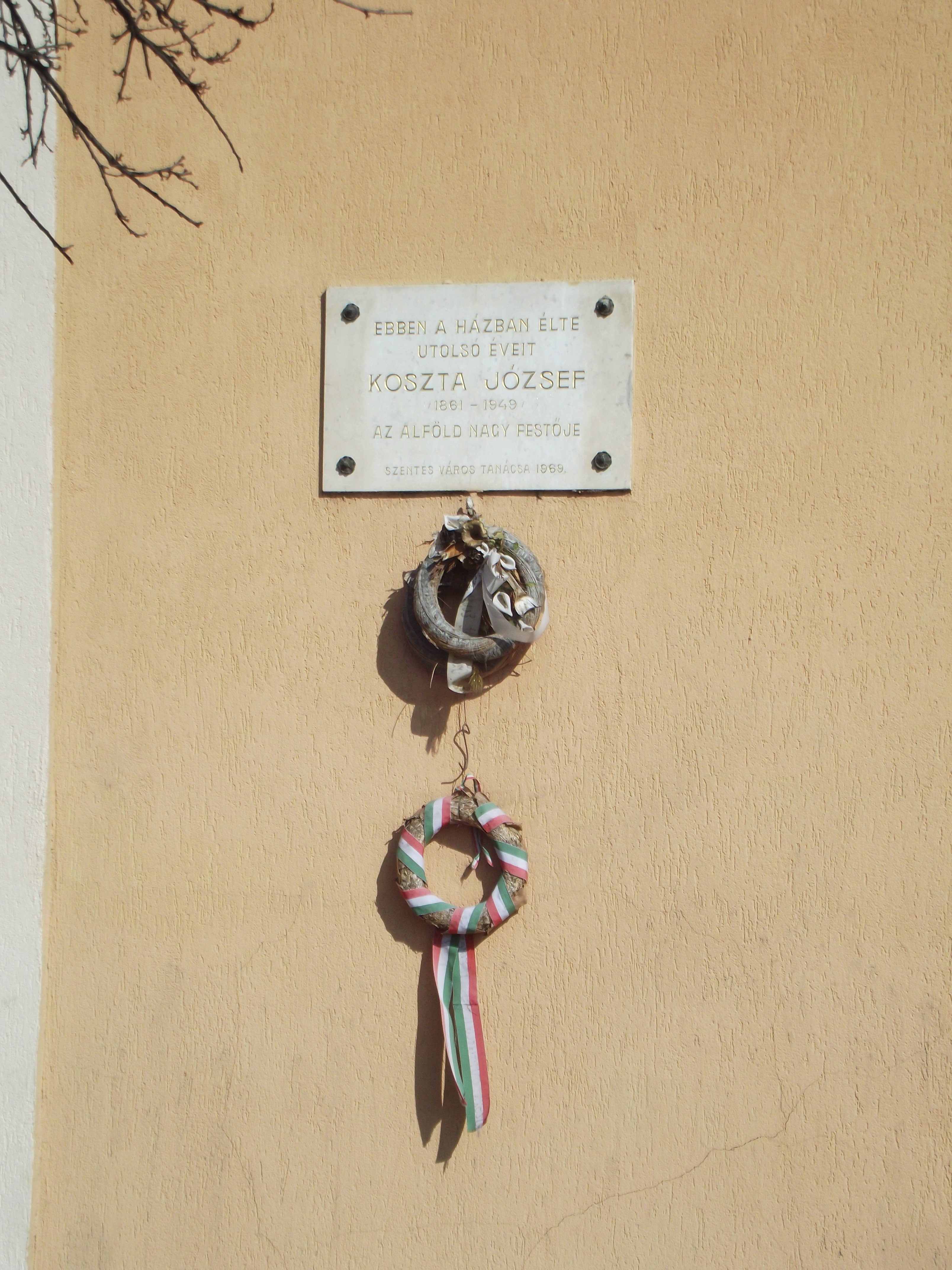 Koszta József's house - plaque on the wall